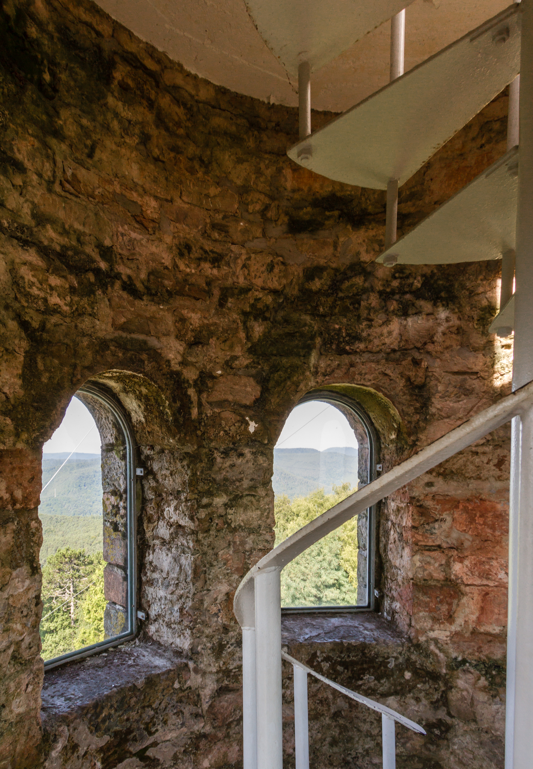 This is a photograph of an architectural monument.It is on the list of cultural monuments of Neustadt an der Weinstraße - Gimmeldingen Designation: Weinbiet tower Construction time: 1870–74 Description: Octagonal lookout tower on the summit of the 554 m high Weinbiet. Parabolic facing designated 1930, architect A. Sieber, increased in 1952. Place: Gimmeldingen, Neustadt an der Weinstraße, Rhineland-Palatinate, Germany Location: Weinbiet House number: 4 Parcel of land: West of the village on the Weinbiet.